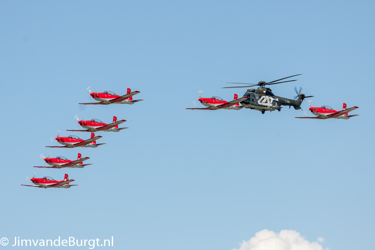 Air14 Payerne